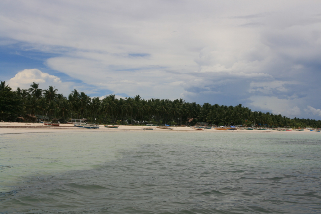 Og-tong beach area, Santa Fe, also showing Mayet and Yooneek resorts